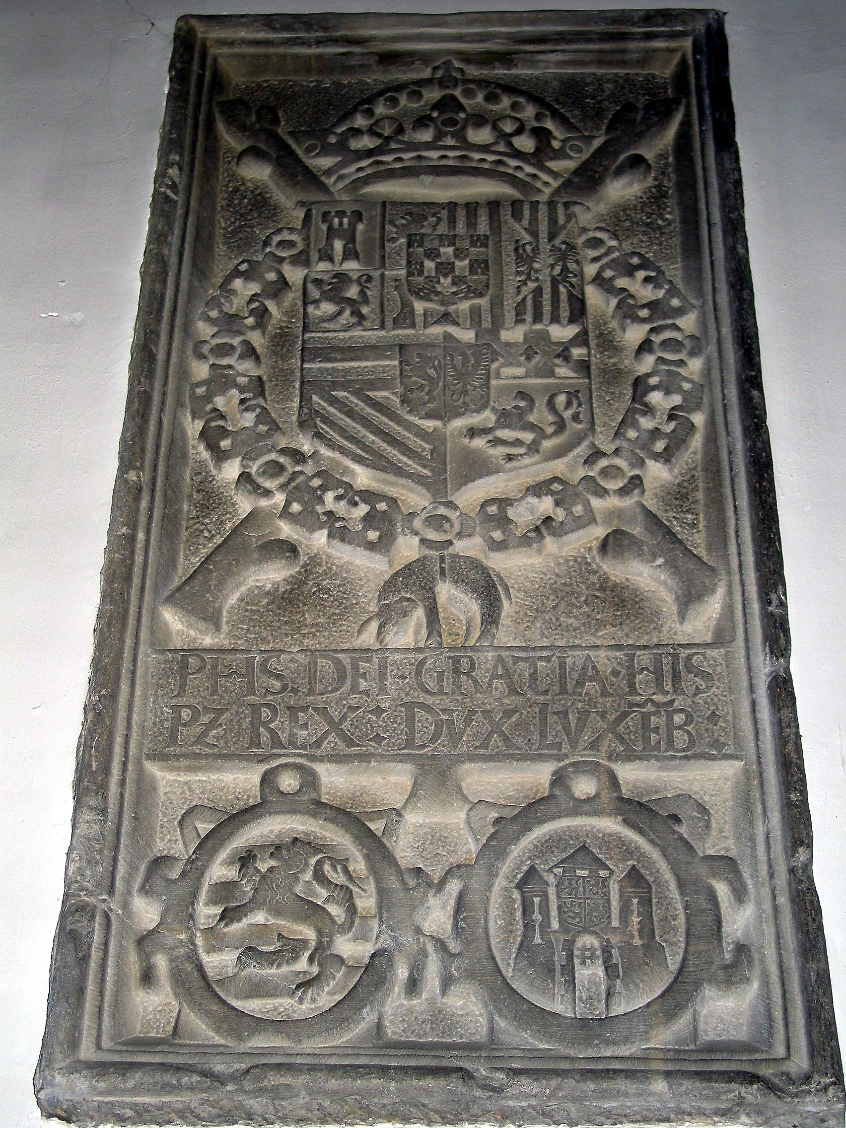 Waha (Belgium), commemorative stone with the Perpetual Edict (1611) and armorial bearings of Philippe II, as well as the blazons of Luxemburg and the Marche-en-Famenne city. - St. Etienne church (1050). Inscription: "Philip, by the grace of God King of the Spains etc., Duke of Luxembourg."